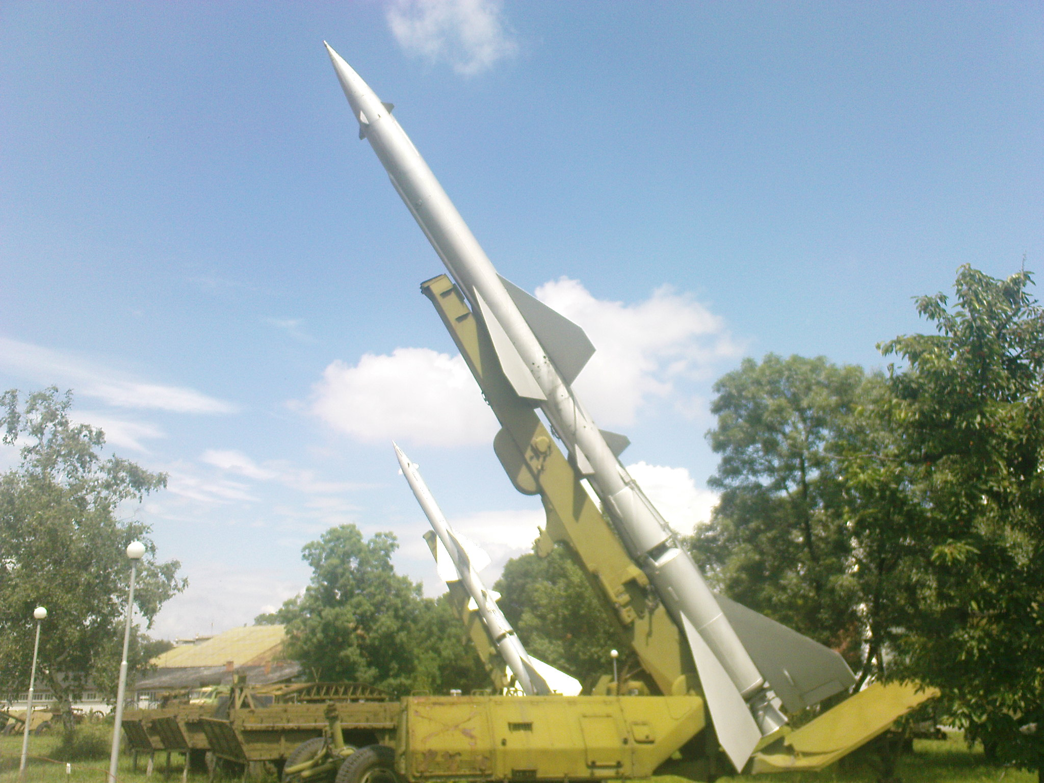 Two SA-2 Guideline (S-75 Dvina) missiles in the National Museum of Military History in Sofia